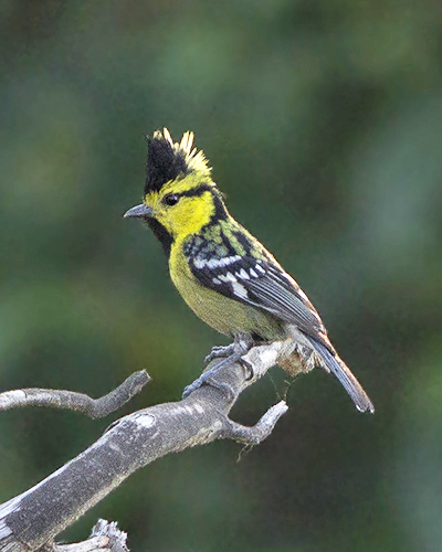 The species Yellow-cheeked Tit had been photographed from Neora Valley National Park in West Bengal, India on 30.04.2016.